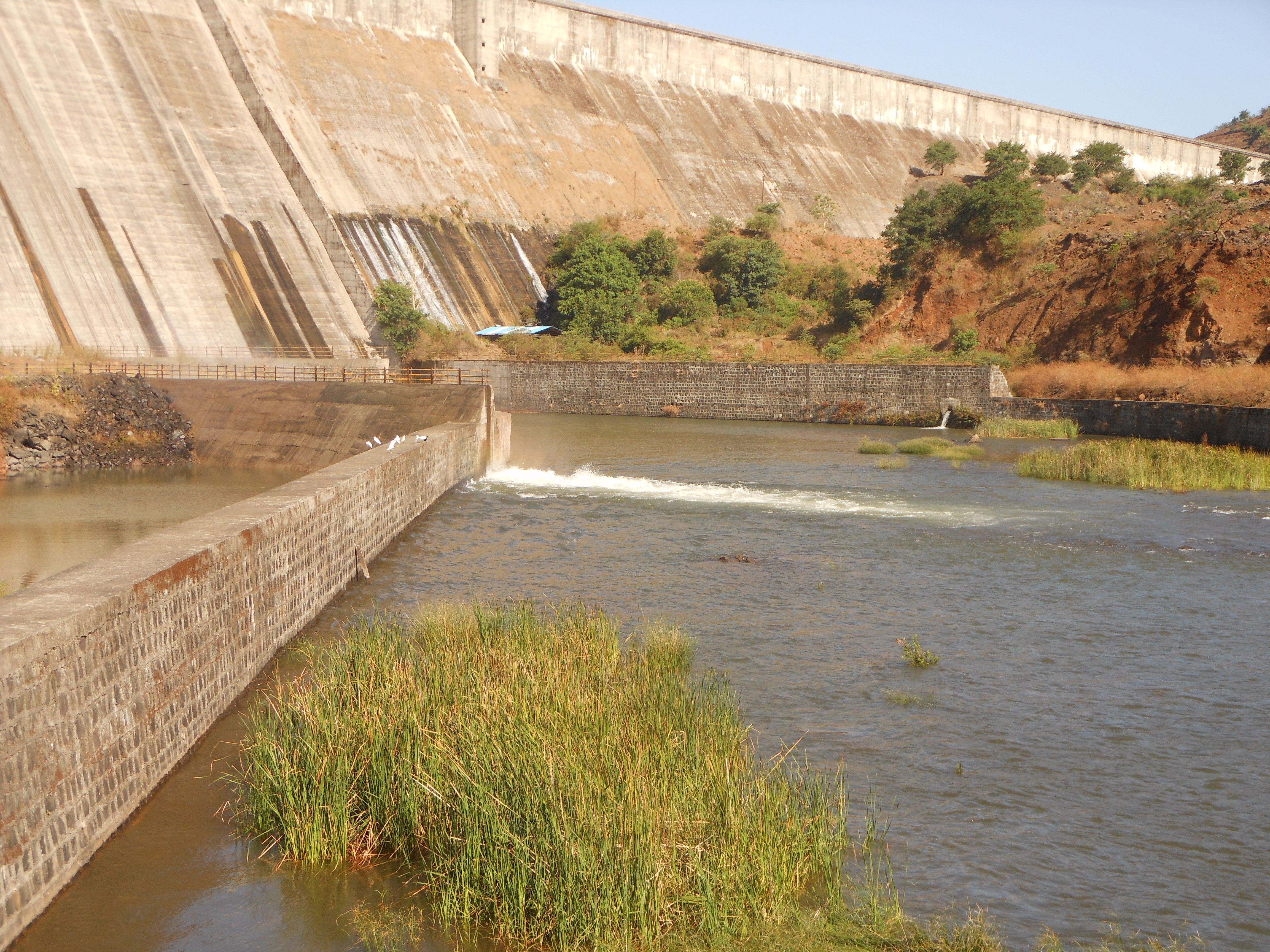 Temghar Dam on Mutha River